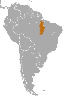 Uta Hick's Bearded Saki (Chiropotes utahickae) range